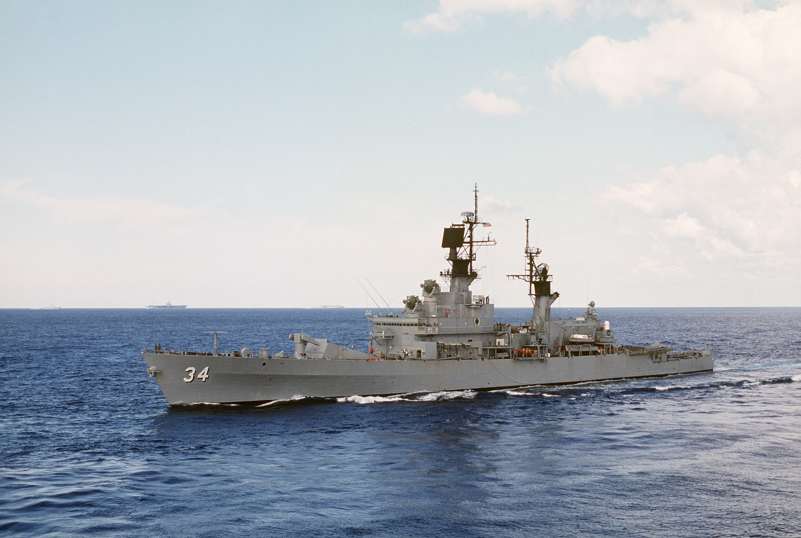 A port bow view of the guided missile cruiser USS BIDDLE (CG 34) underway during operations with the 6th Fleet.